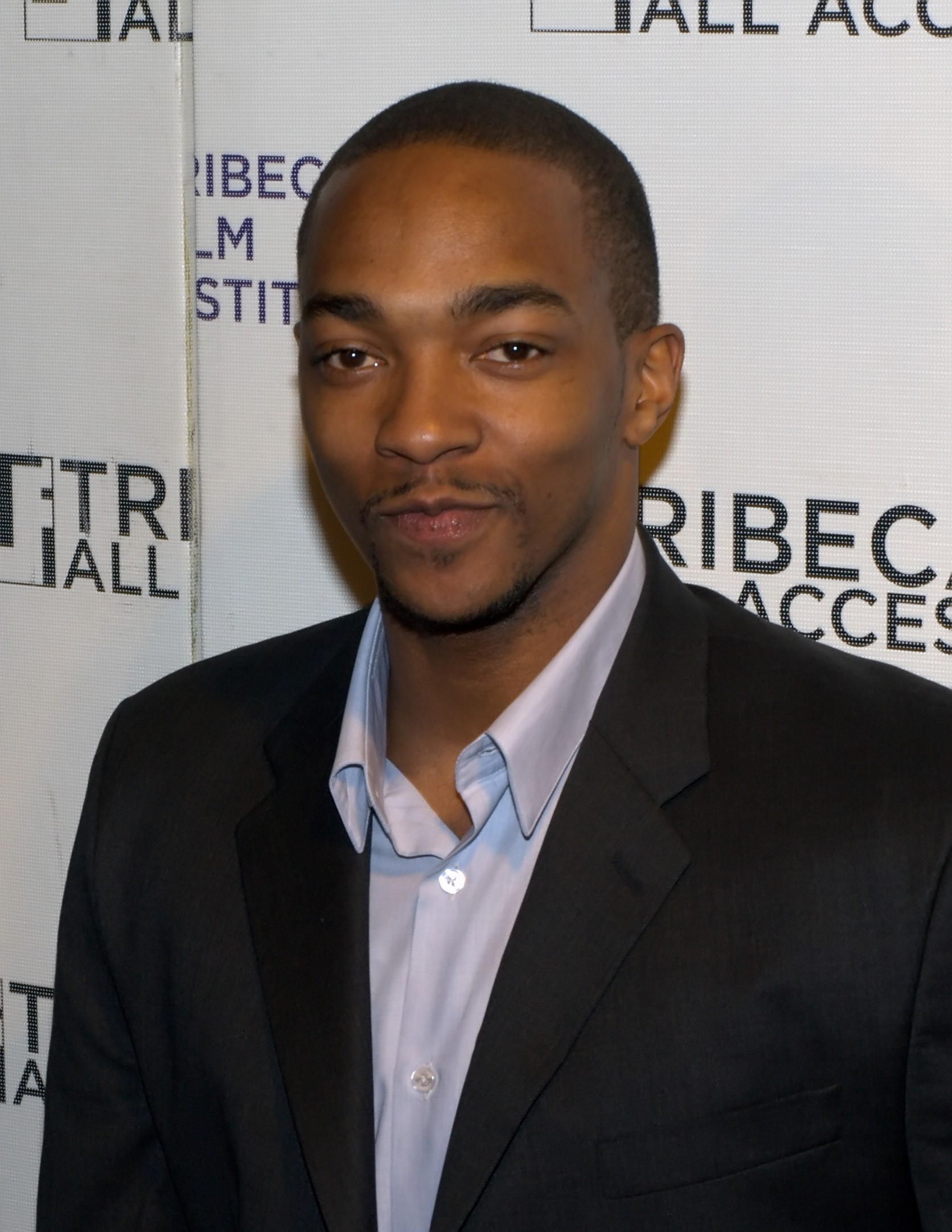 Anthony Mackie at Tribeca Film Festival 2010